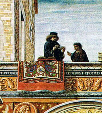 Crivelli_detail_of_Almsgiving 1486